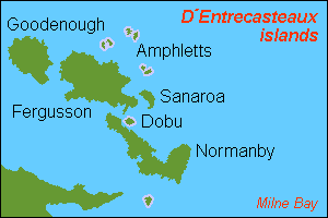 Map (rough) of D´Entrecasteaux islands, Papua New Guinea, own work composed from various mapreferences